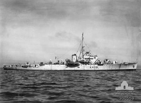 Photograph of Australian frigate HMAS Culgoa at Williamstown shortly ofter beining commissioned.